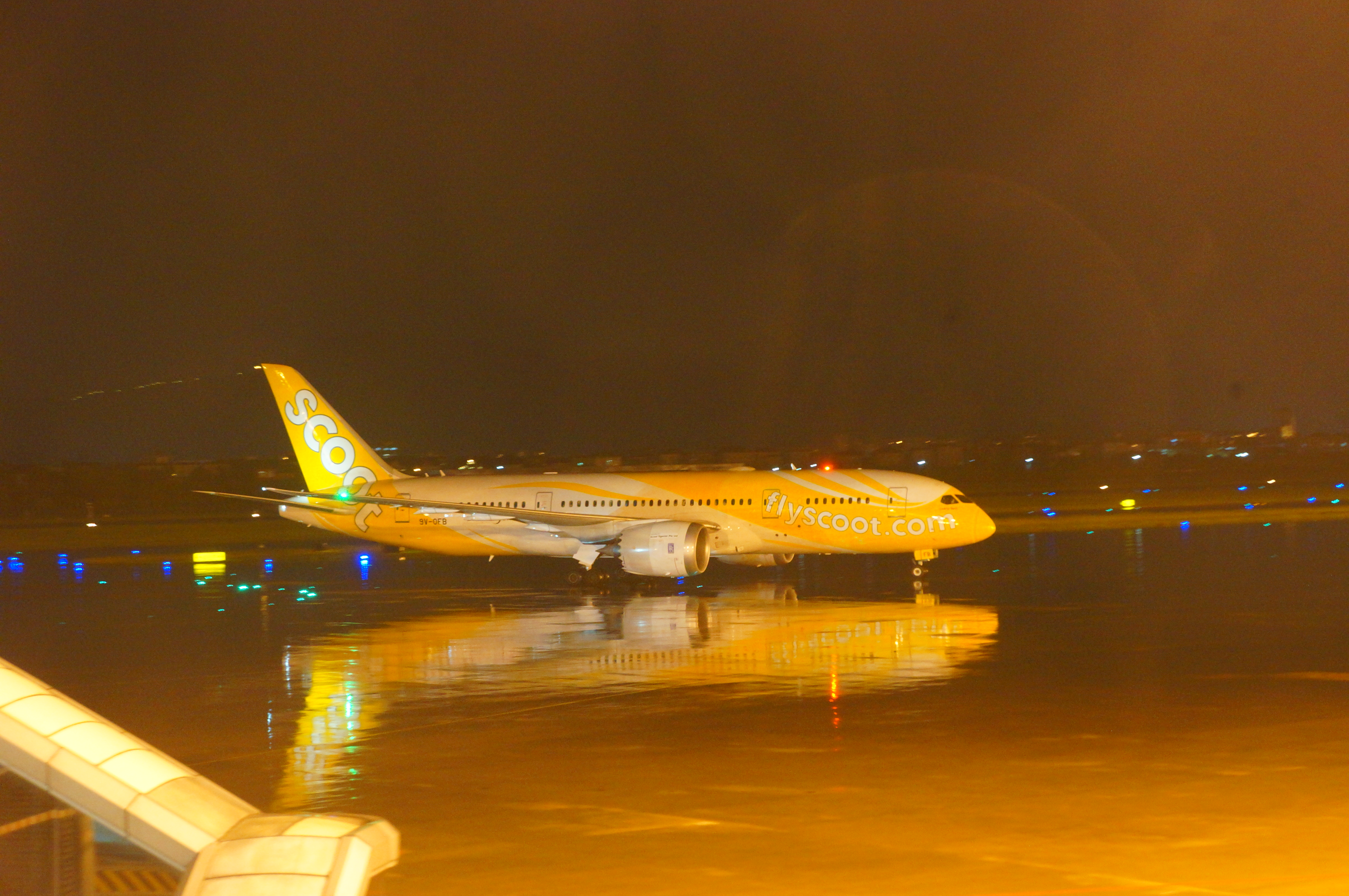 201708 9V-OFB at HGH